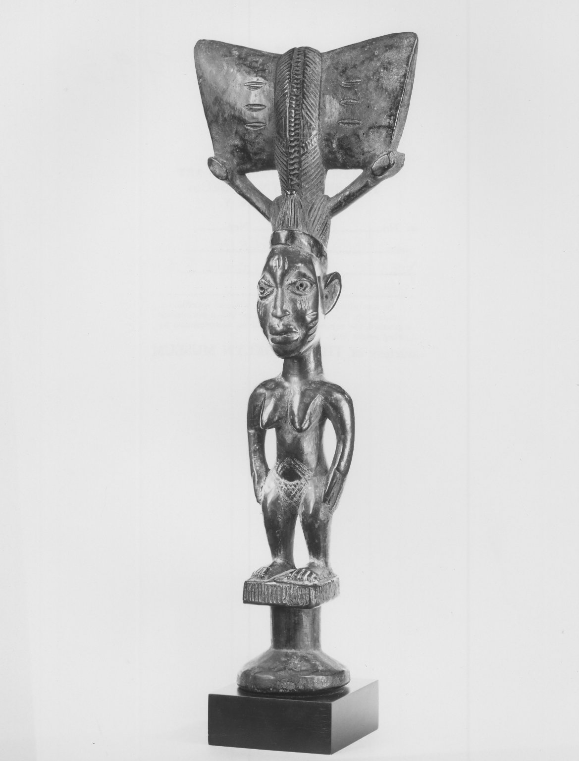 A dance wand in the form of a standing wooden female figure with arms at sides apart from torso; hands joined at hips; and feet and legs apart. Facial features include a forehead with three vertical cicatrization marks; eyelids heavy and triangular in shape; centers of eyes pierced; and lips slightly apart. Ears are horseshoe-shaped and slightly flared away from head. Coiffure has four overlapping cone-shaped elements with incised striations. Face and coiffure are separated by a smooth band with ties at the back of the head. A large double-edged axe springs vertically from top of coiffure. It is supported on either side by a smaller axe attached to a handle that joins the coiffure. Three leaf-shaped cicatrization marks appear on the front of each axe blade. Central rib of main staff (oshe) has incised geometric designs of diagonal lines and a horizontal-notched pattern on the front and back. Figure is a deep burnished reddish color with traces of red camwood. Coiffure and axe are matte black. Figure stands on its own rectangular base. Below the base is a handle in the shape of a cylinder with a flared circular terminal. Object is mounted on a modern wooden black stand. Condition is excellent. Evidence of wear on handle. Figure has some pitting and surface losses.